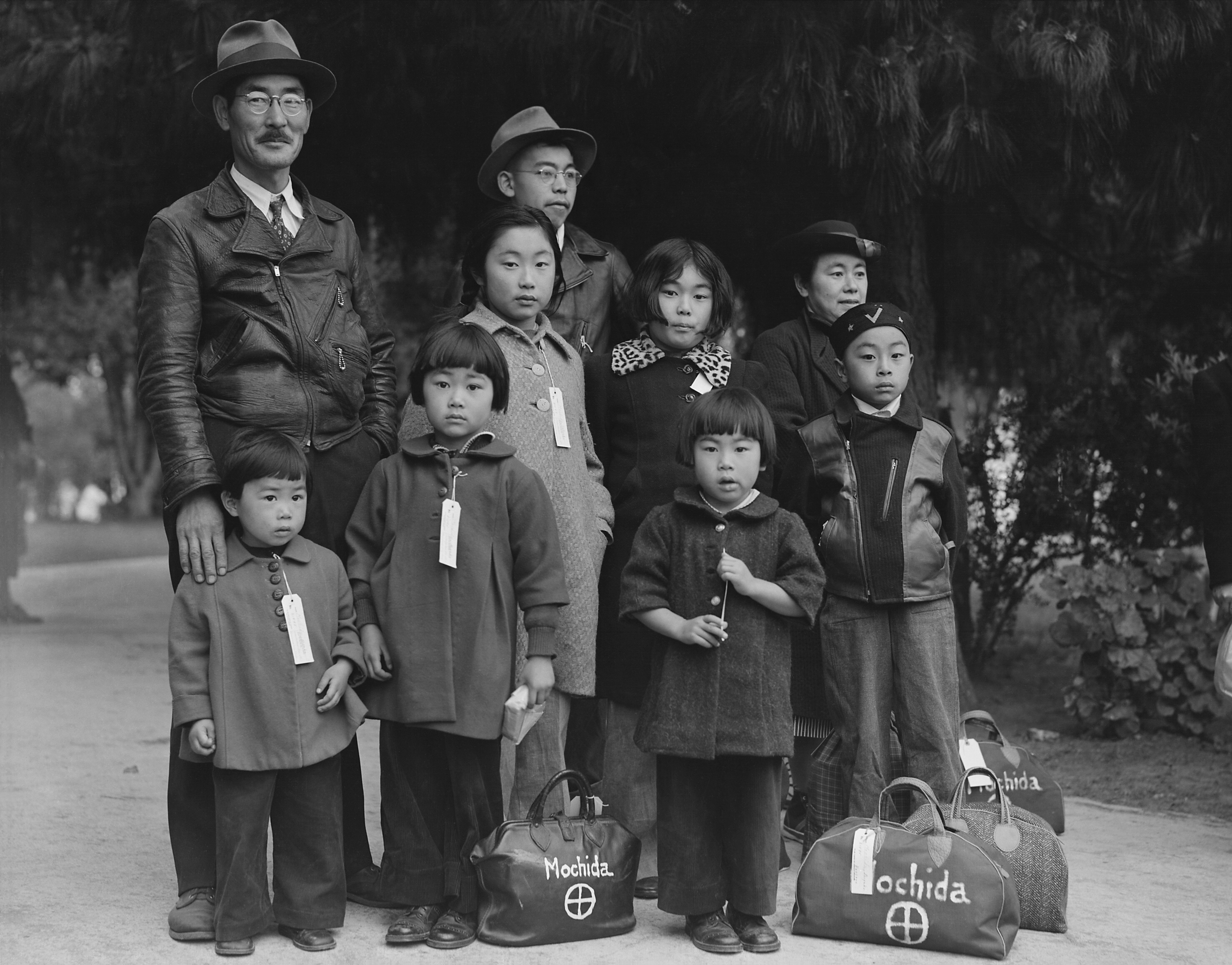 Scope and content: Original caption: Hayward, California. Members of the Mochida family awaiting evacuation bus. Identification tags are used to aid in keeping the family unit intact during all phases of evacuation. Mochida operated a nursery and five greenhouses on a two-acre site in Eden Township. He raised snapdragons and sweet peas. Evacuees of Japanese ancestry will be housed in War Relocation Authority centers for the duration.